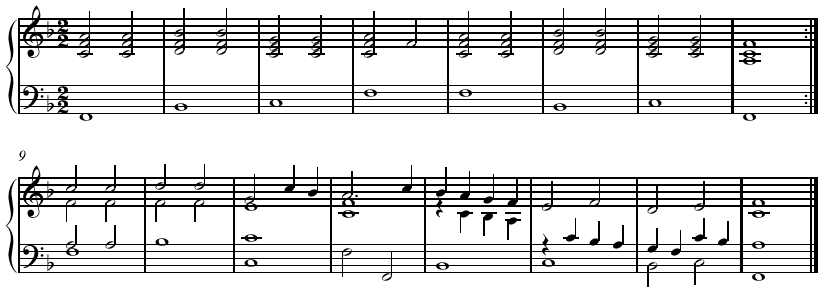 Bergamesca variant, MS. Lute Book, c. 1600. Created by Hyacinth (talk) 12:46, 25 May 2011 (UTC) using Sibelius 5.